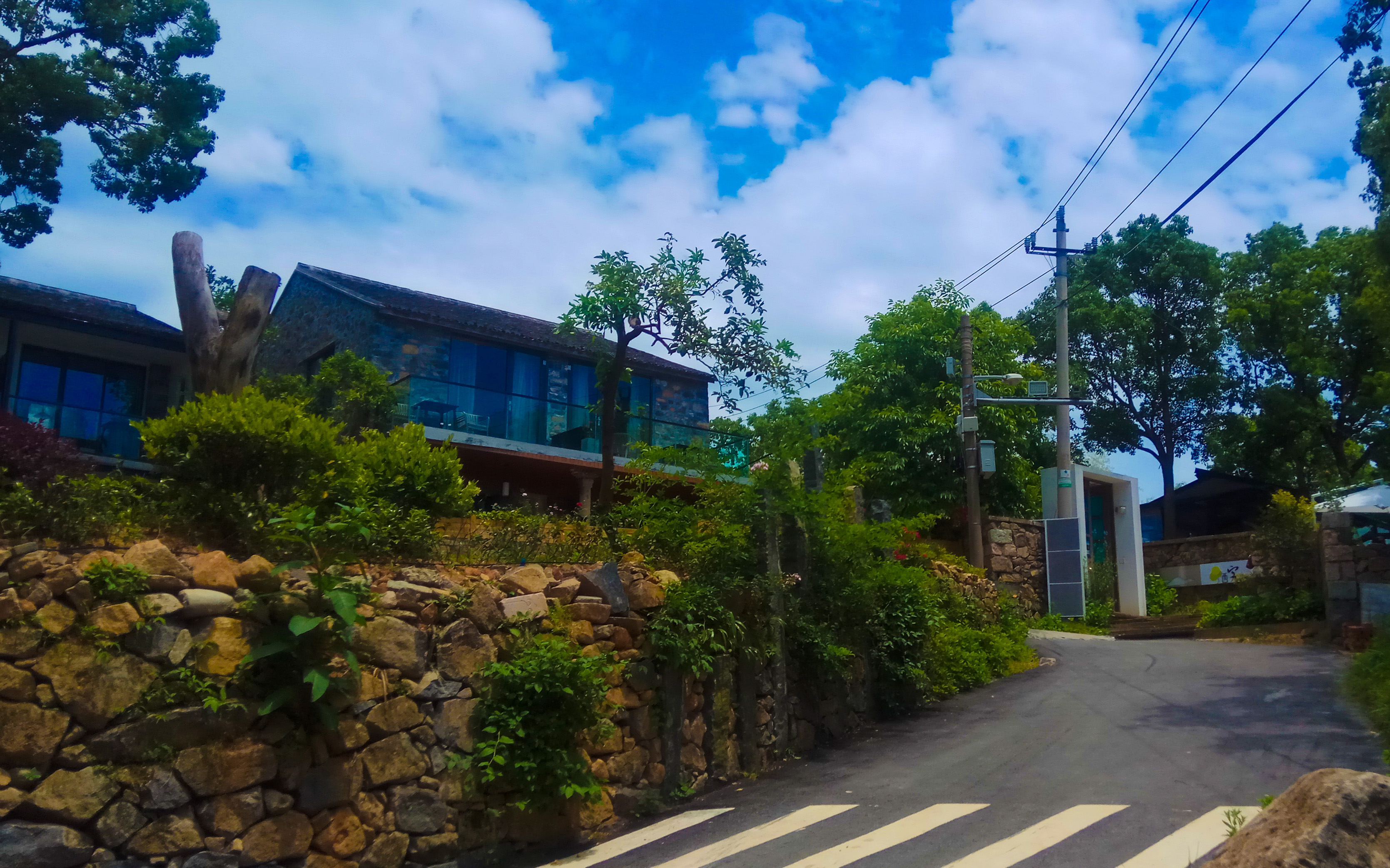 Qike Artistical Hotel on Shifeng Mountain, Damaiyu Subdistrict, Yuhuan, Zhejiang, China